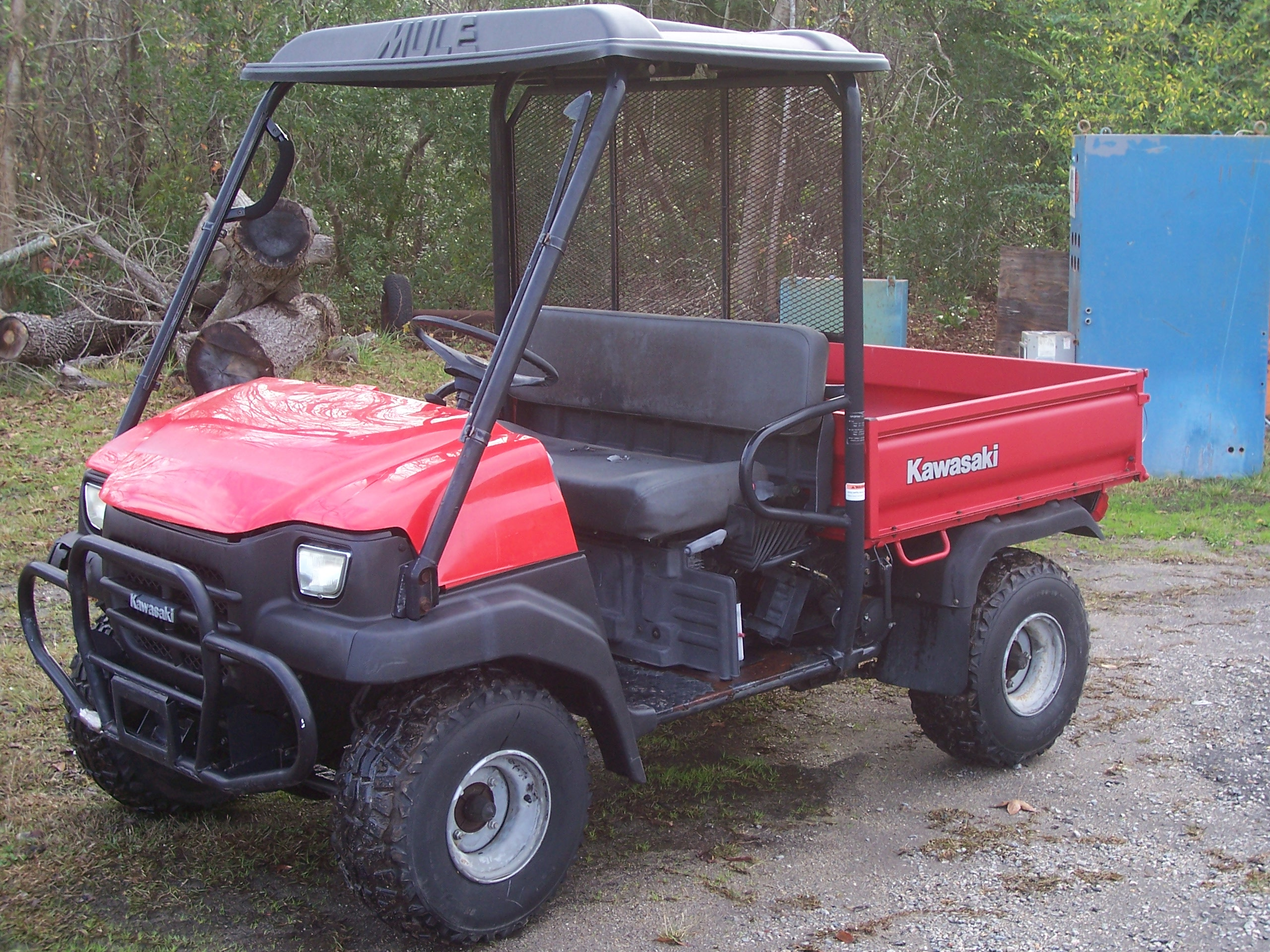 2002 Kawasaki Mule 3010, 2-Wheel Drive